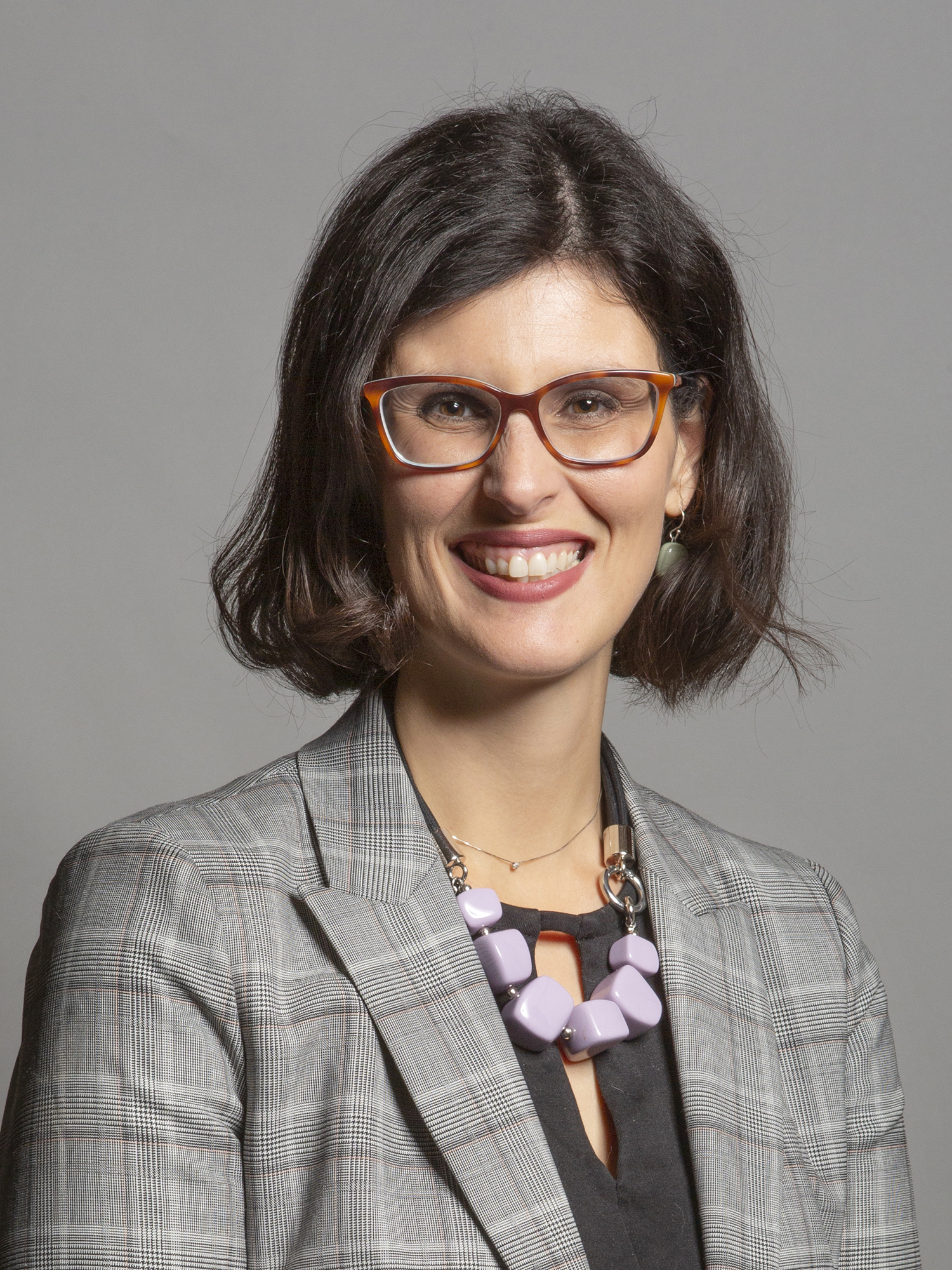 Official portrait of Layla Moran MP 3×4 portrait of Layla Moran